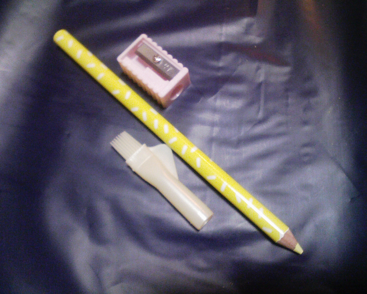 a tailor's chalk(pencil type) and a chalk sharpner